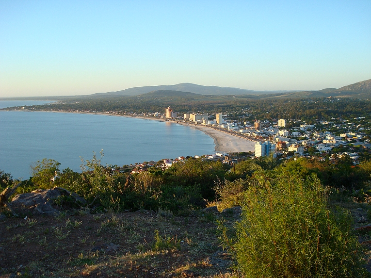 View of Piriápolis, from the top of Cerro San Antonio, Maldonado Department, Uruguay.